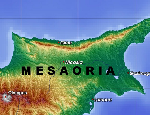 Mesaoria plane in Cyprus